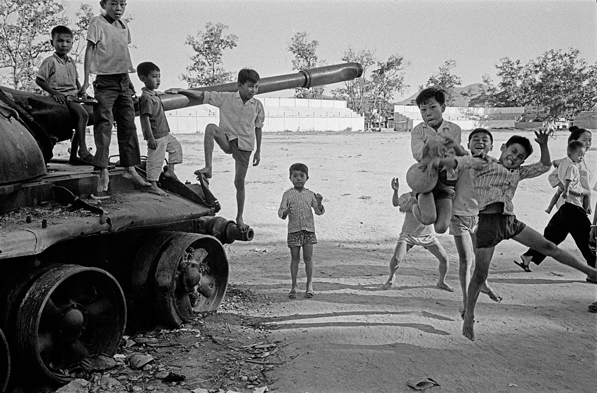 VIETNAM (South). Kontum. December. 1972. Children play football next to a tank, probably a Russian-made, destroyed during the North's offensive which was repelled earlier in the year.